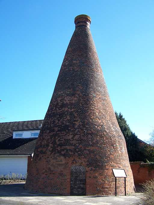 Brick "bottle kiln" in Nettlebed, Oxfordshire: probably late 17th-century